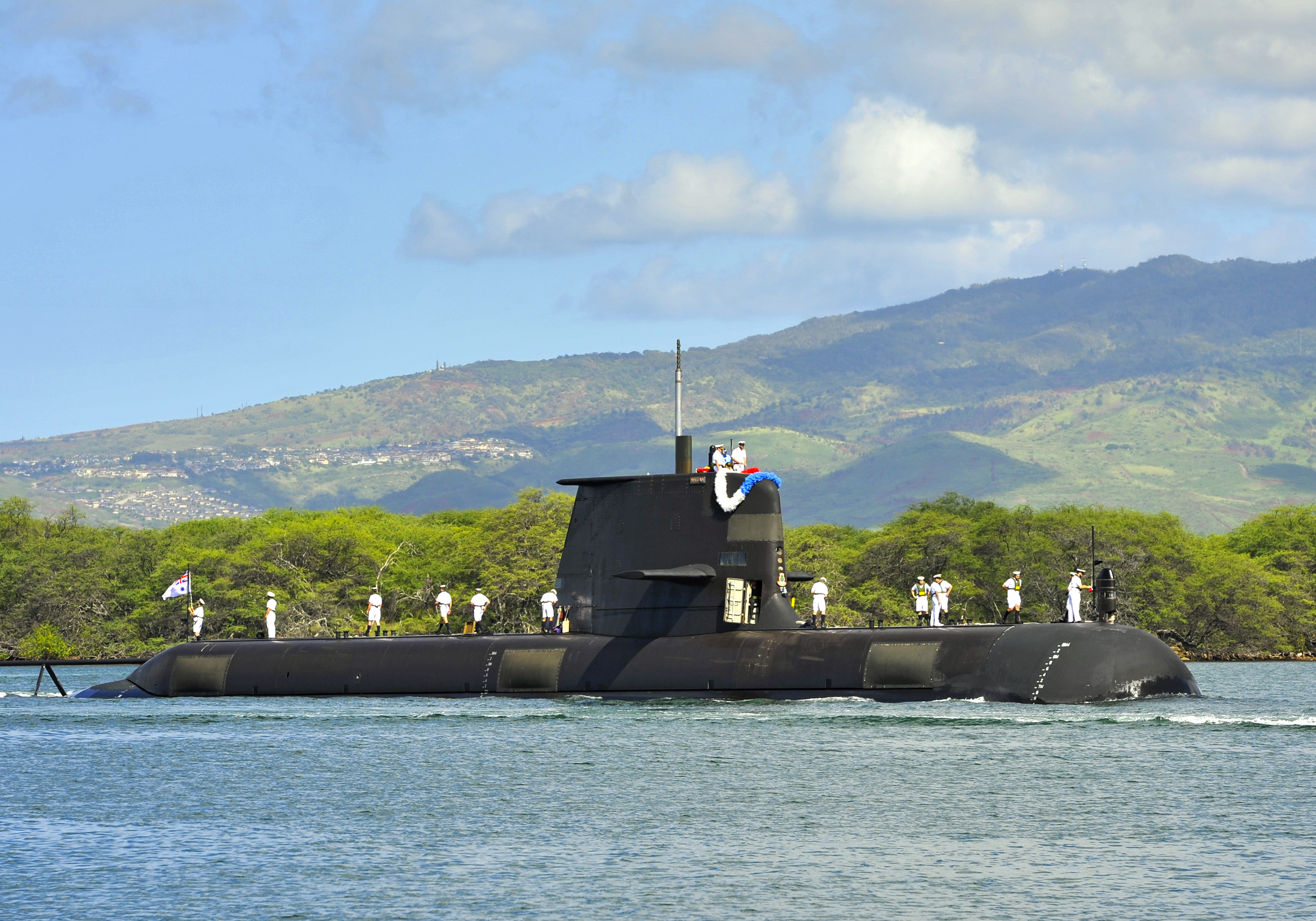 The Royal Australian Navy Collins-class submarine HMAS Sheean (SSG 77) arrives at Joint Base Pearl Harbor-Hickam, Hawaii (USA), after participating in Rim of the Pacific (RIMPAC) Exercise 2014.